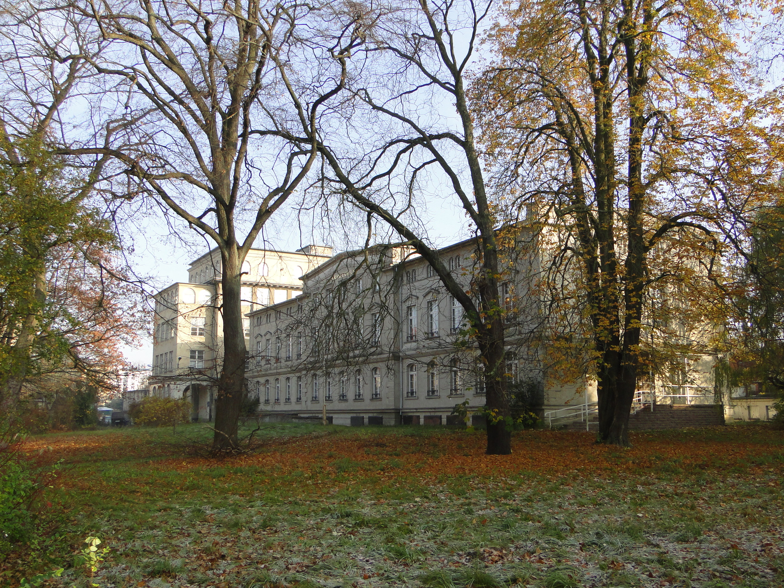 Former district hospital in the street Werderstraße in Schwerin, Mecklenburg-Vorpommern, Germany